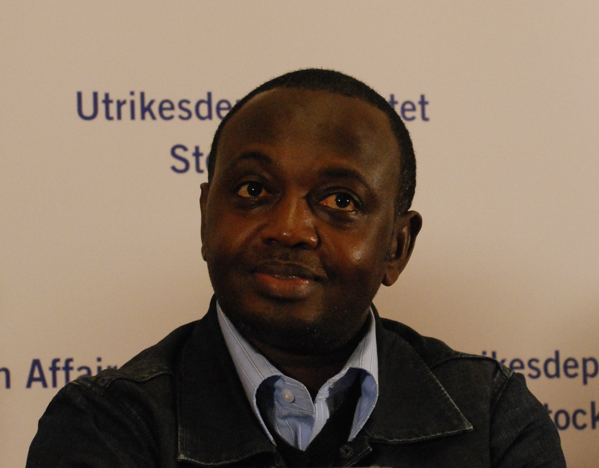 Press conference with the laureates of the 30th Right Livelihood Award 2009: René Ngongo